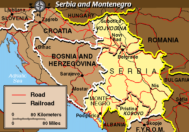 Political Map of Serbia [and Montenegro] from the Balkans Regional Atlas